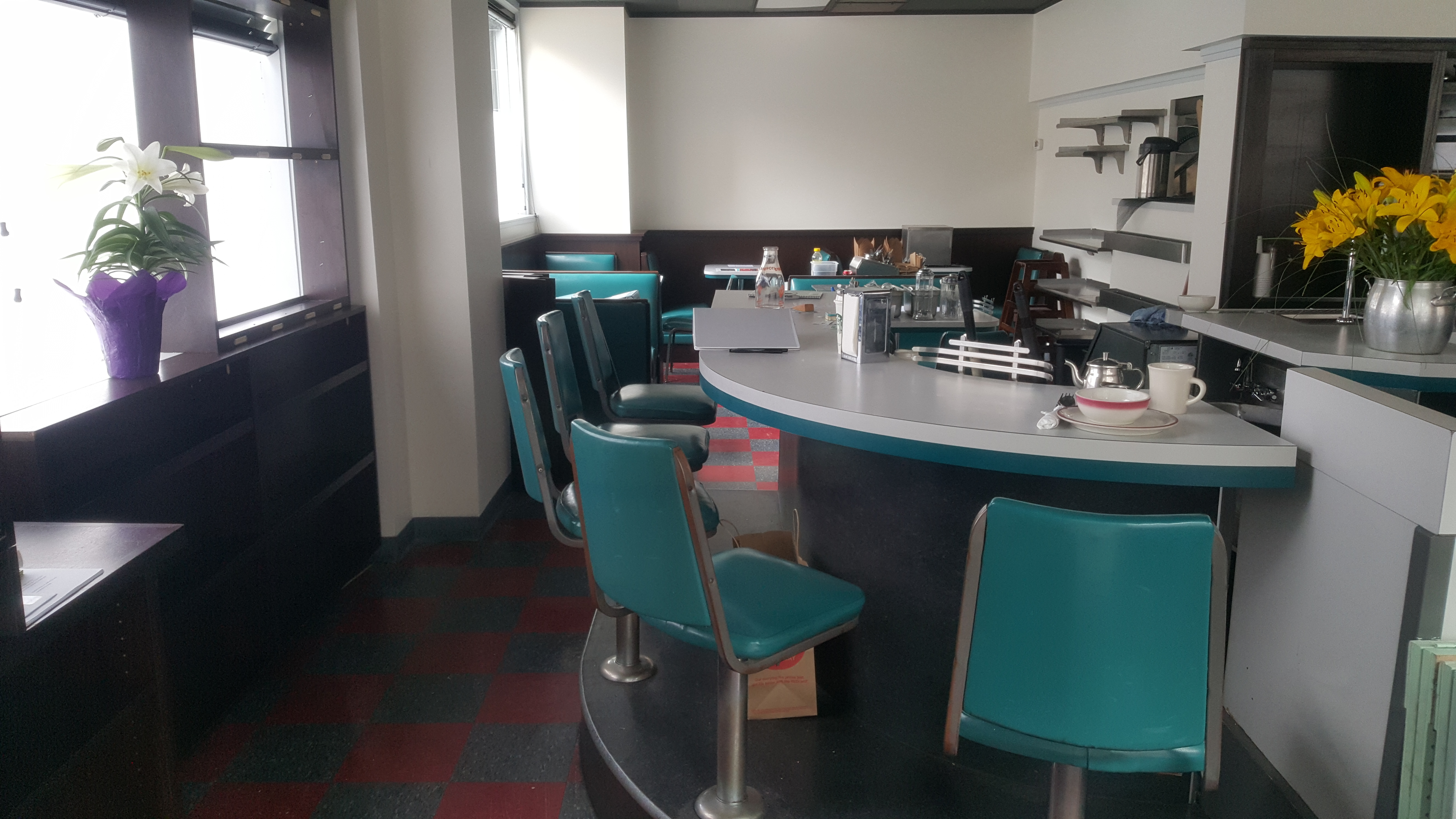 Dime Store, interior (closed), Portland, Oregon, 2016 (Photo taken from outside window.)